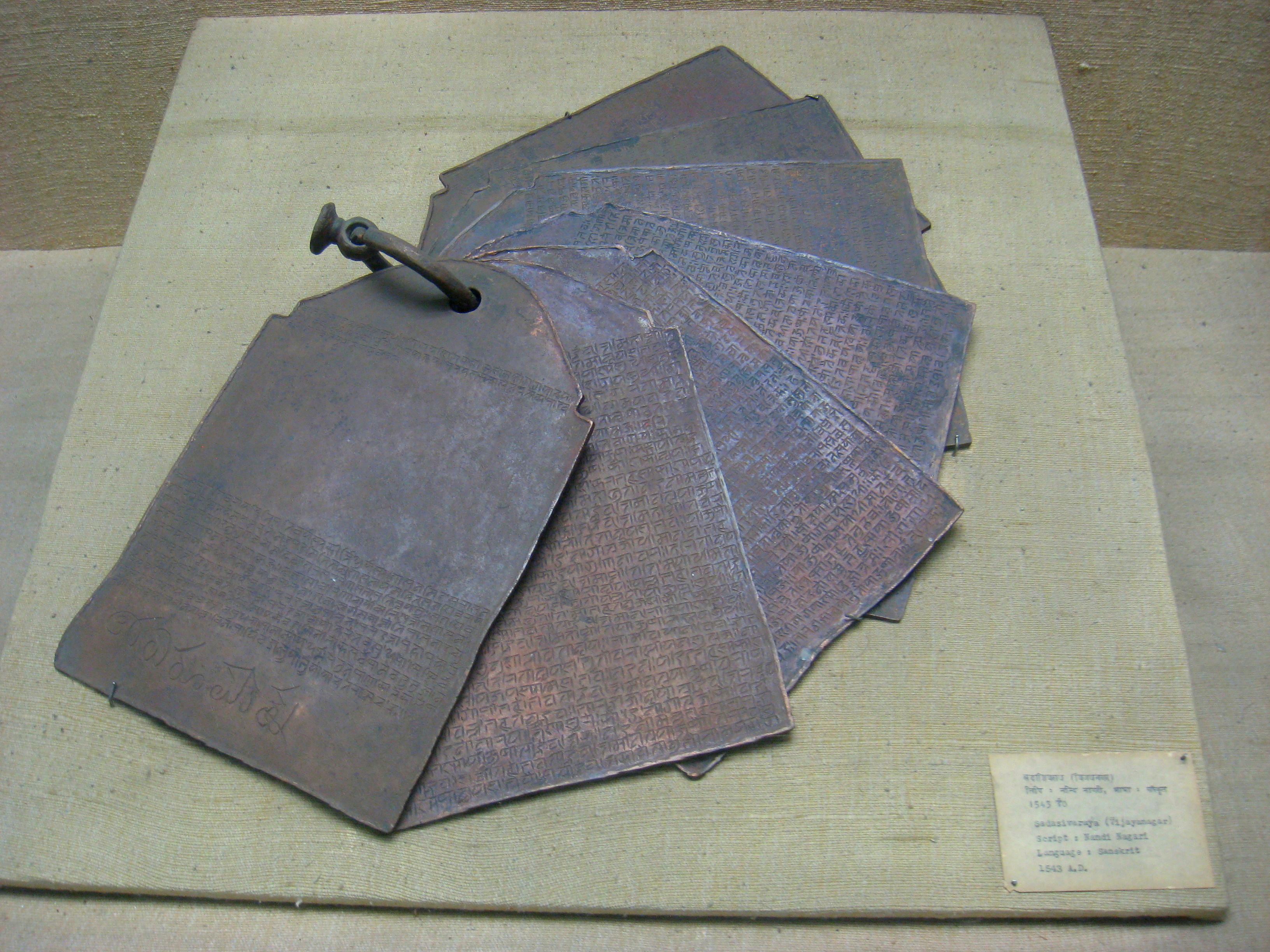 Sadasiva Raya, Sanskrit in the Nandi Nagari script, 1543. Copper plates, exhibited in the National Museum, New Delhi, India.